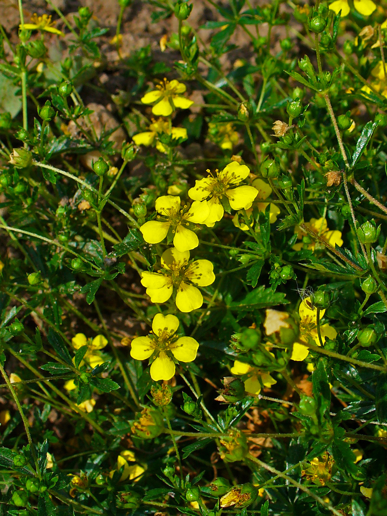 Potentilla erecta, Rosaceae, Common Tormentil, flowers.